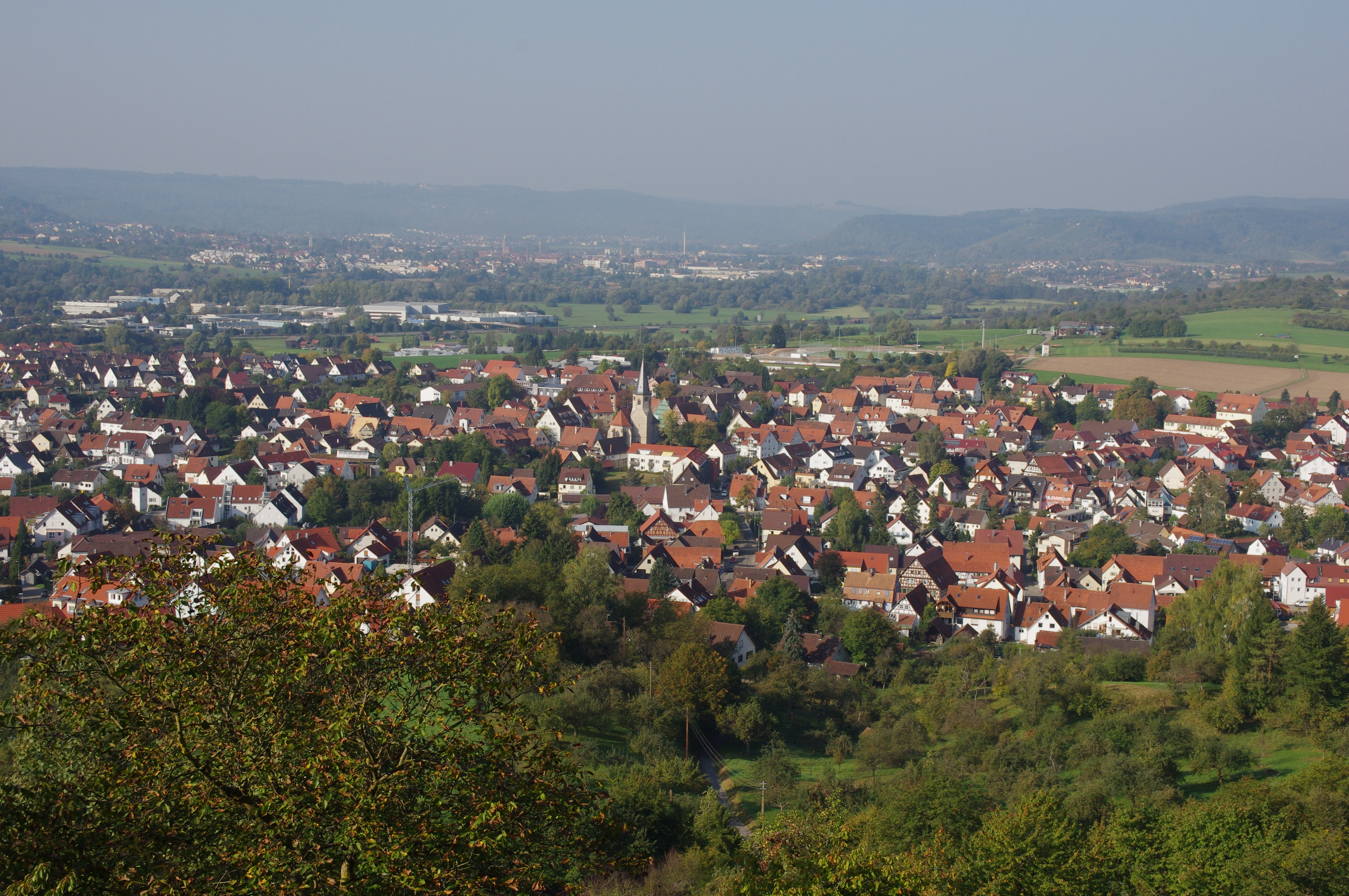 View on Urbach (Rems), Baden-Württemberg, Germany